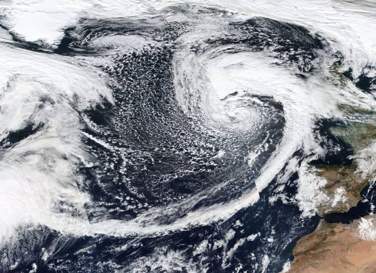 Storm Brian of the 2017–18 UK and Ireland windstorm season on 20 October 2017.